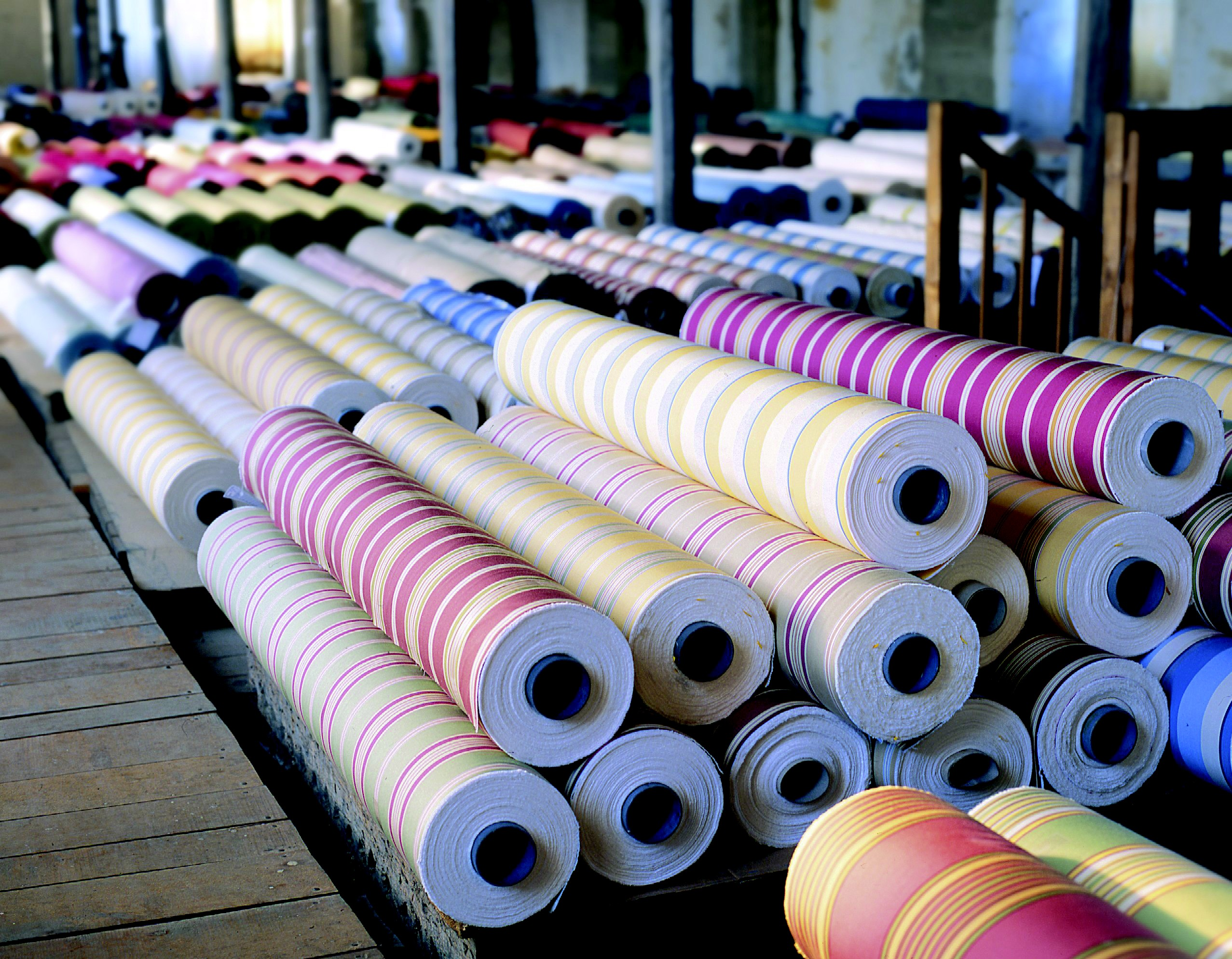 Rouleaux de tissu